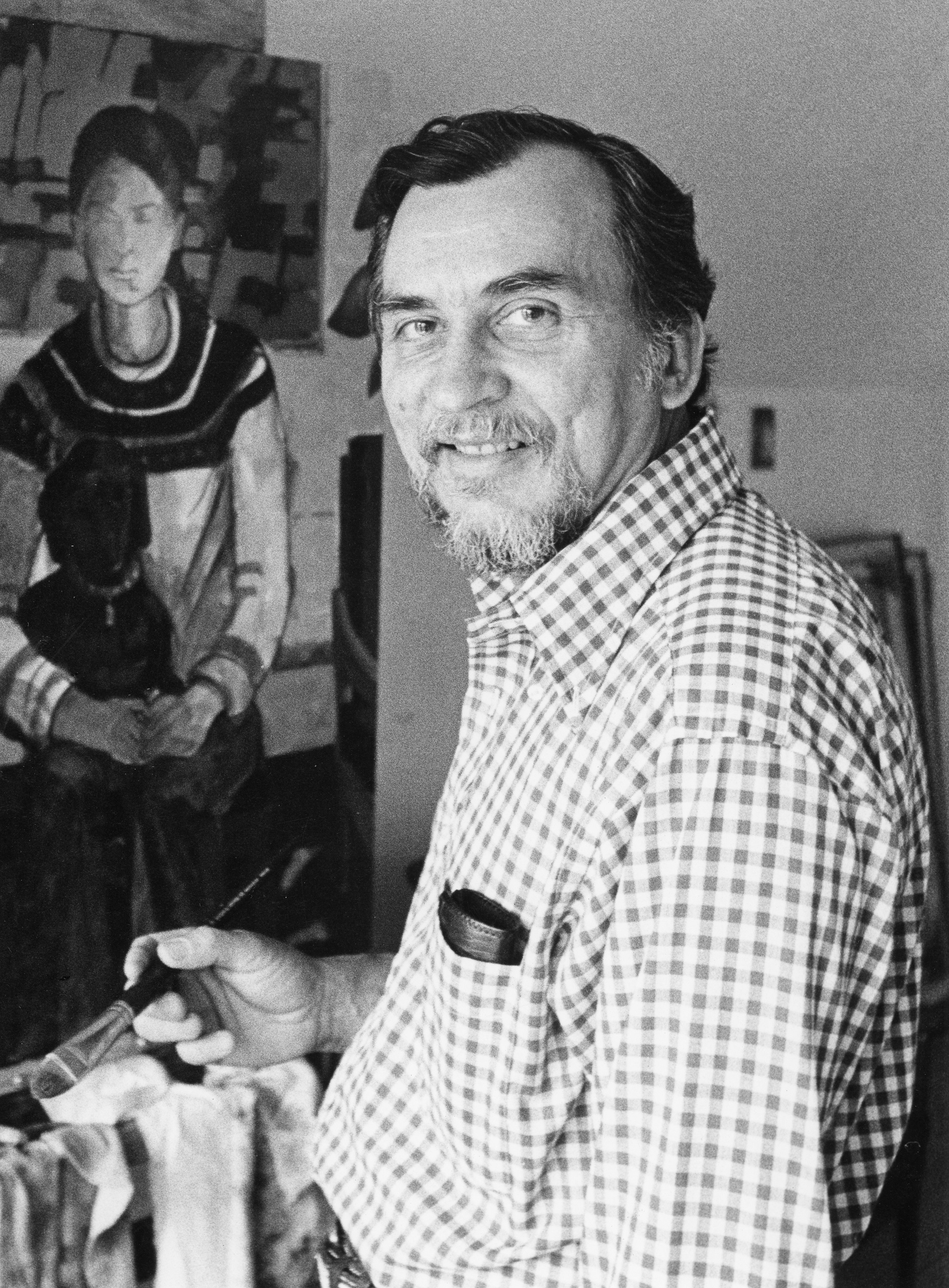 Photo of artist Gibson Byrd painting in studio, 1970s